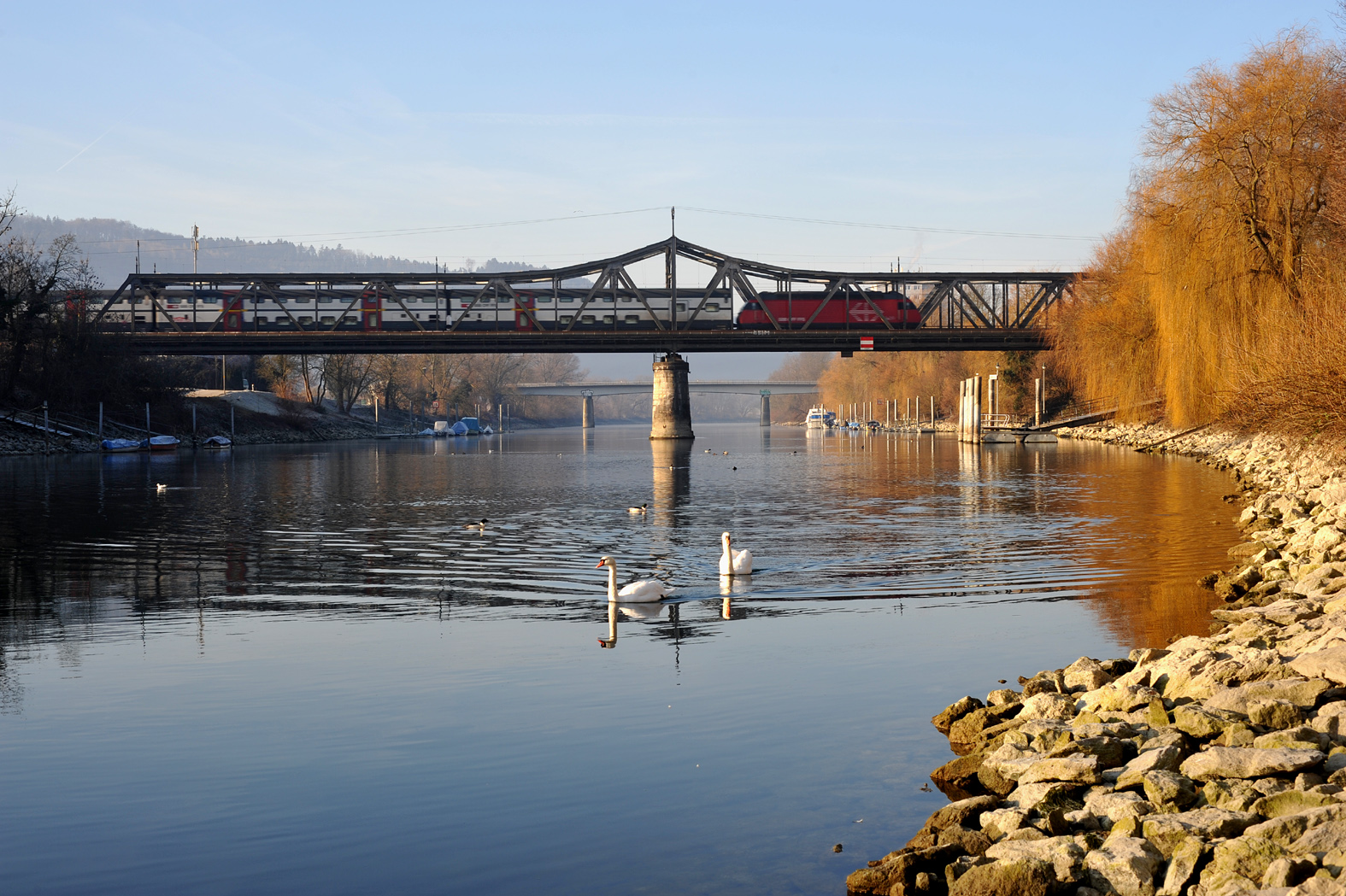 Railway bridge over the Aar between Aegerten and Brügg; Berne, Switzerland. In the background the road bridge of the A6.